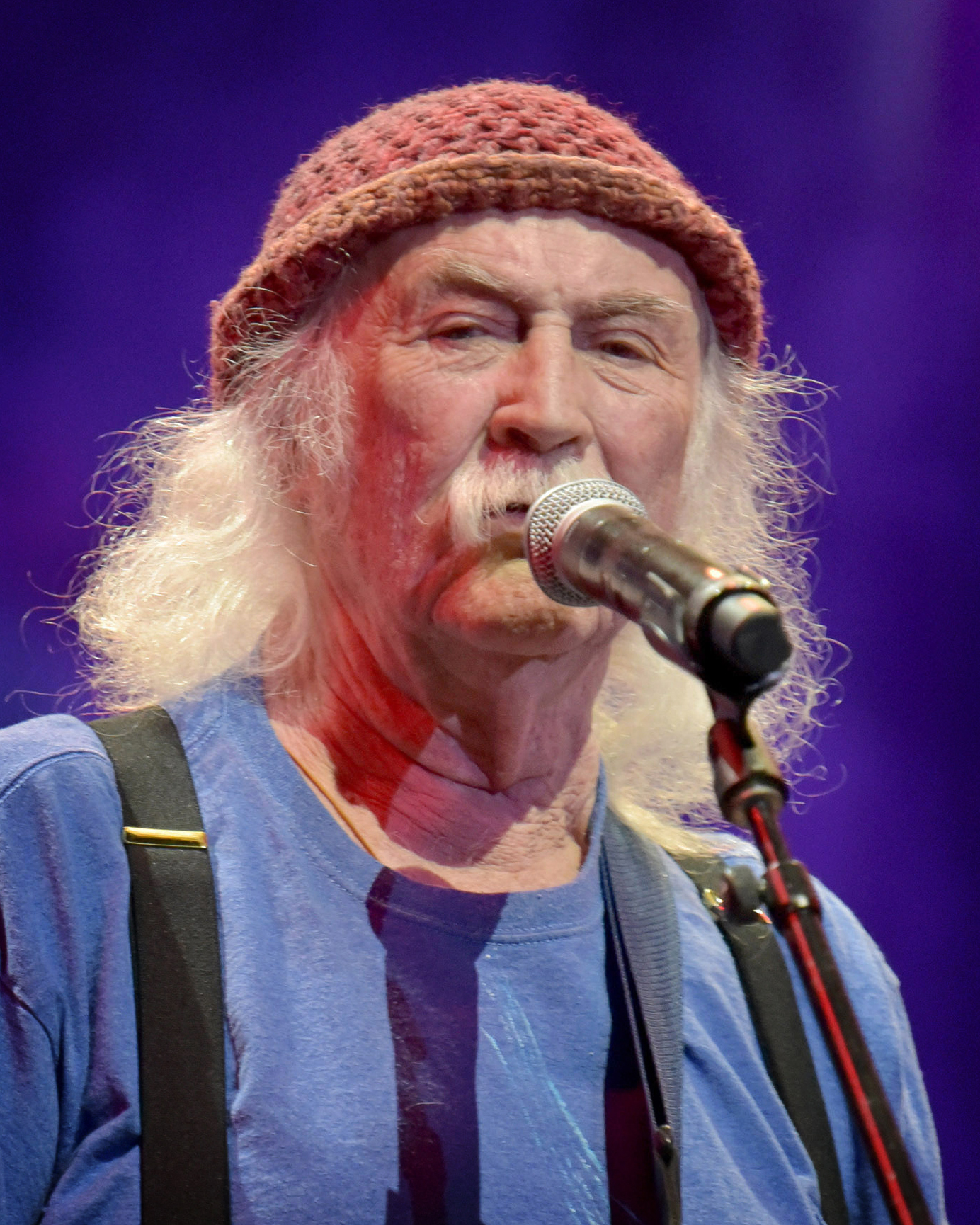 David Crosby performs for the California Saga 2 Charity Concert in Los Angeles California on July 3, 2019 - Photo by Glenn Francis of